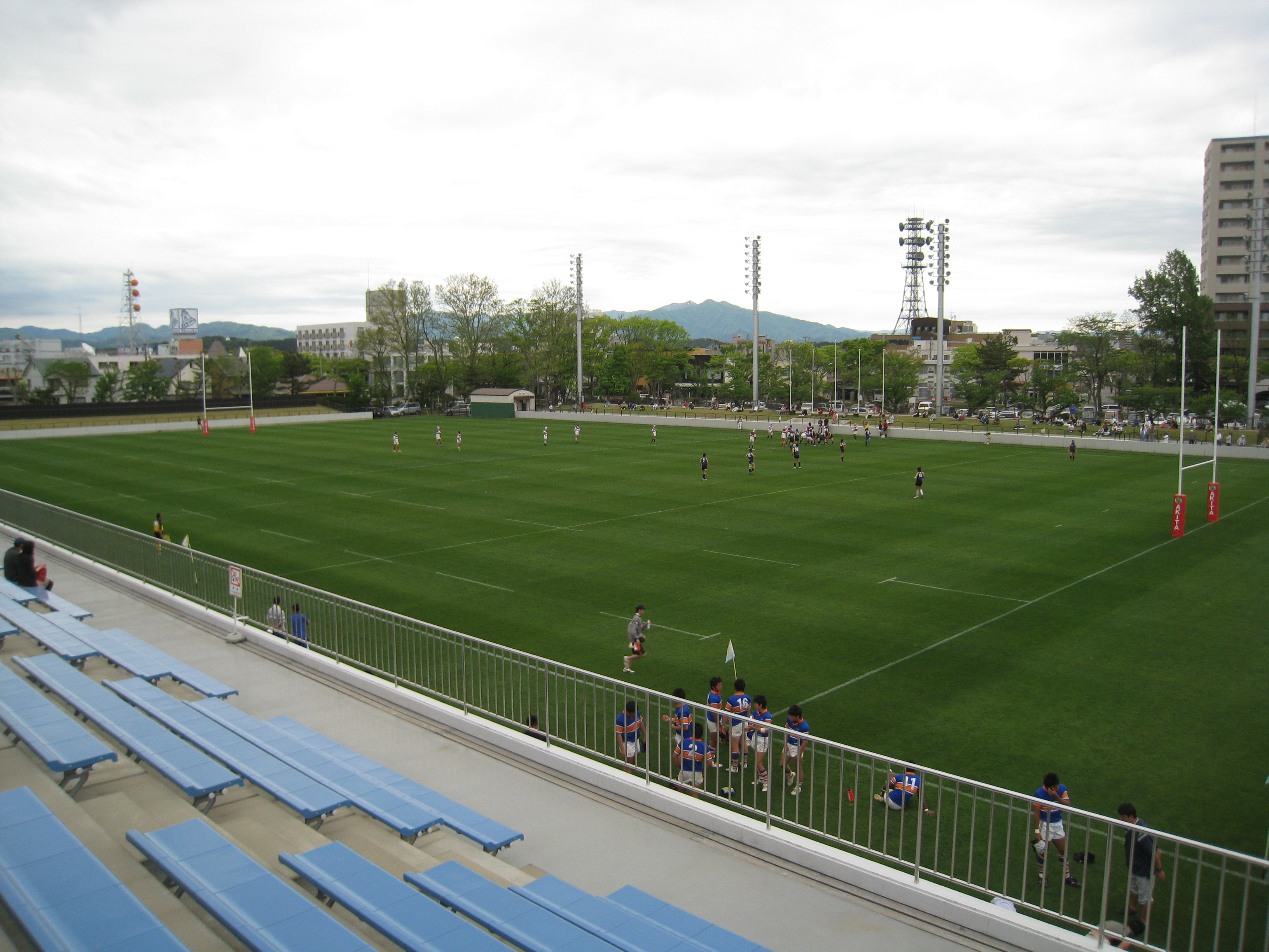 Akita Municipal Football Stadium